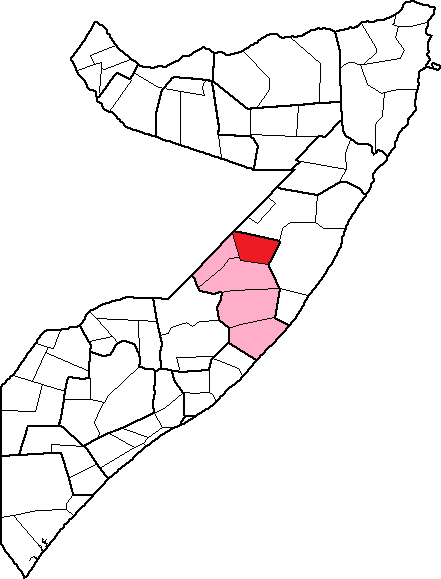 Location of the Adado (Cadaado) district in the Galguduud region, Somalia. Boundaries reflect those endorsed by the Republic of Somalia in 1986.